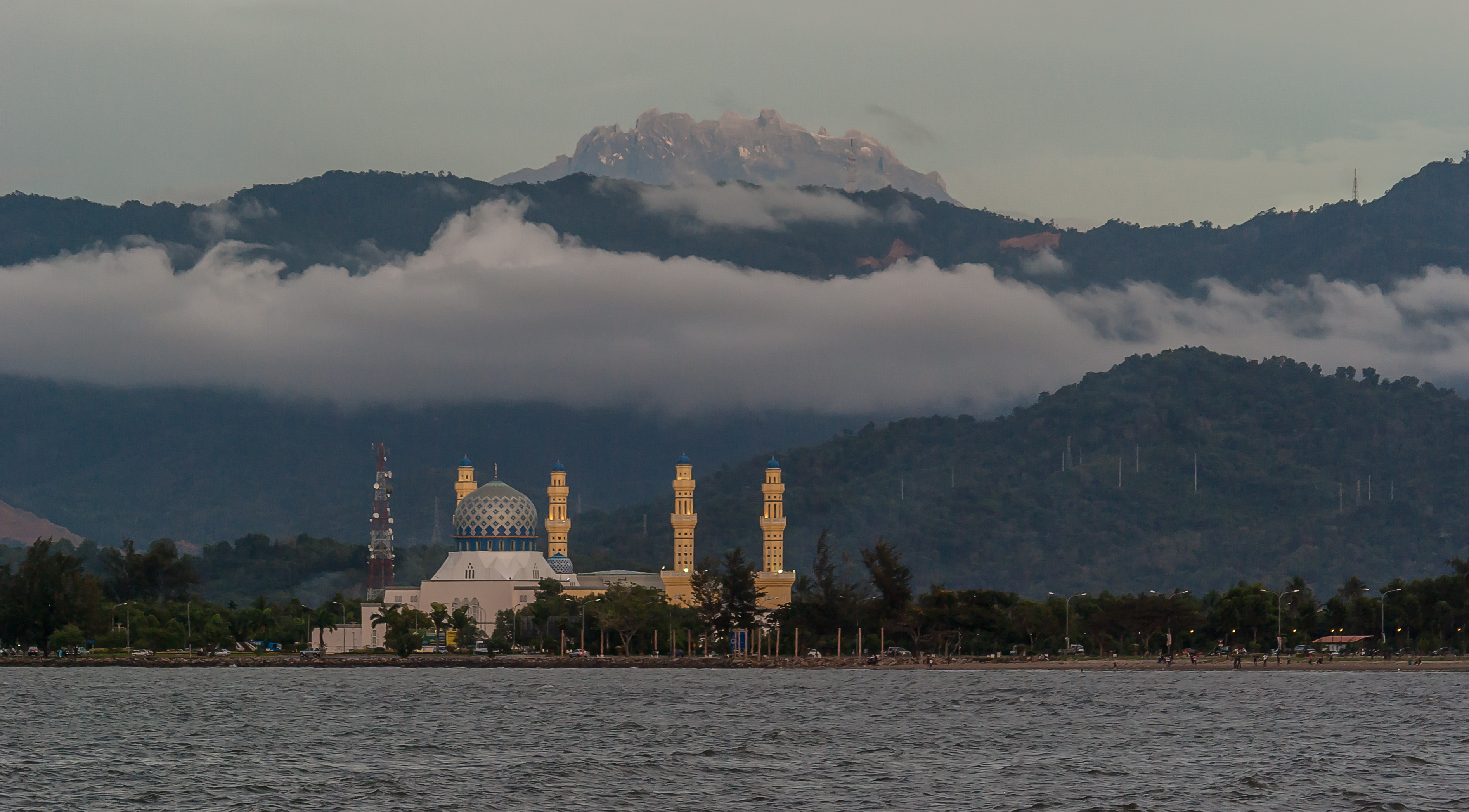 Masjid Bandaraya (City Mosque) in Kota Kinabalu and the Mount Kinabalu in the background